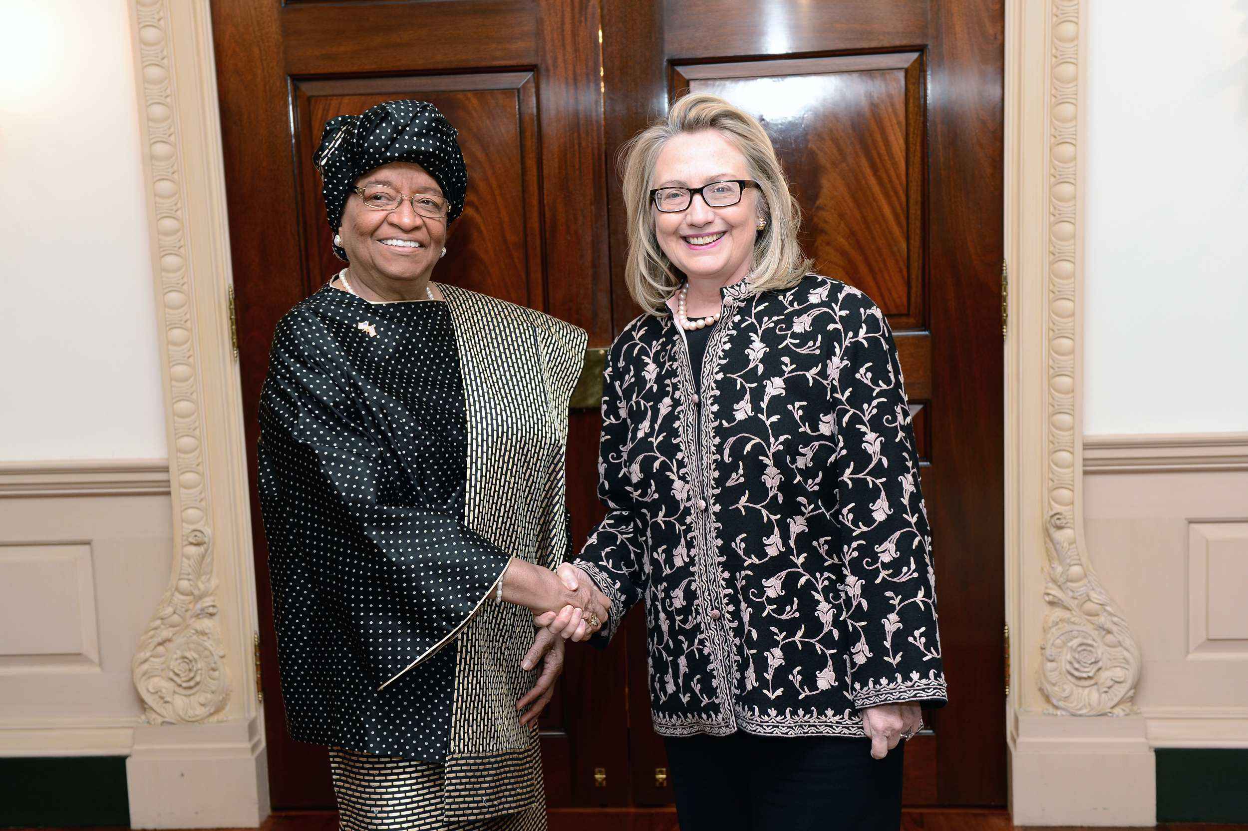 U.S. Secretary of State Hillary Rodham Clinton meets with Liberian President Ellen Johnson Sirleaf at the U.S. Department of State in Washington, D.C., January 15, 2013. [State Department photo/ Public Domain]